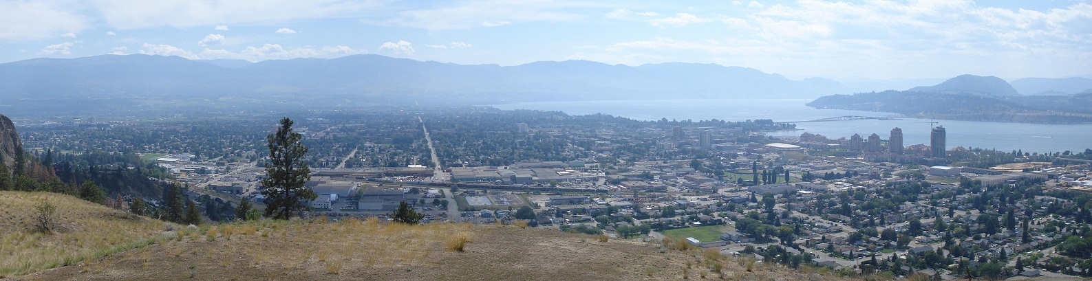 Panorama of kelowna in late summer